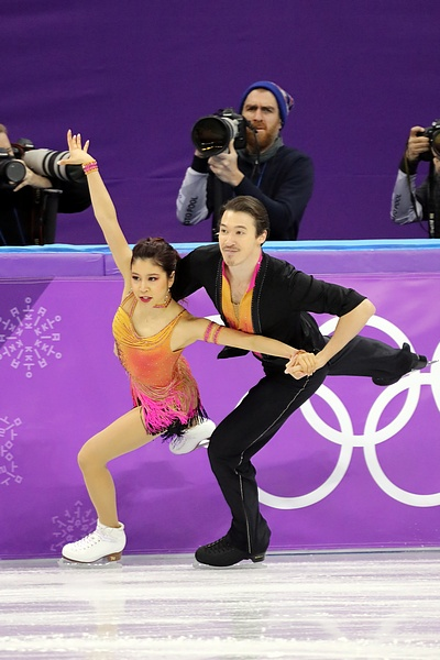 Photos – Olympics 2018 – Dance (MURAMOTO Kana REED Chris JPN – 15th Place)